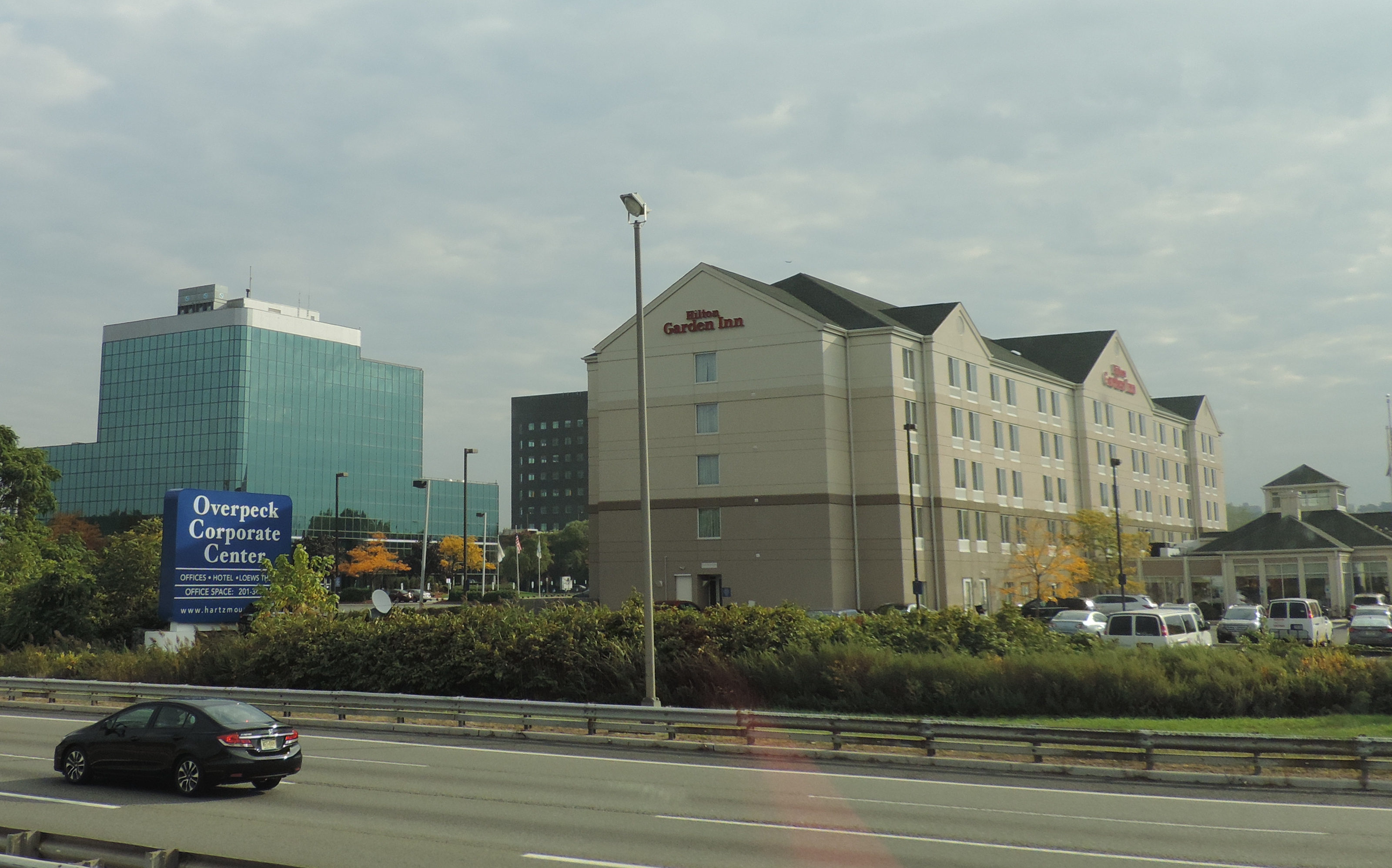 Looking east at hotel in Corporate Center.